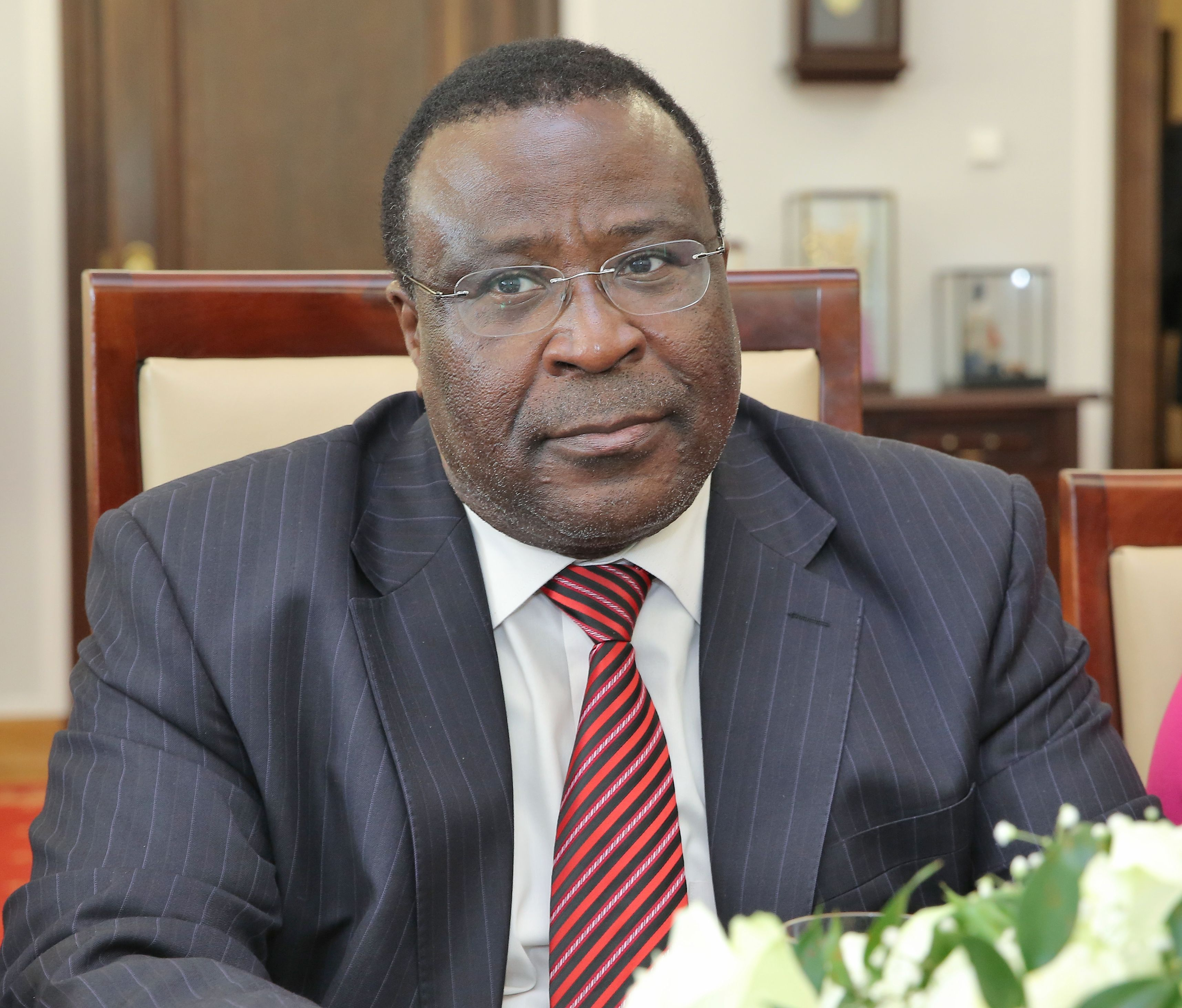 Speaker of the Kenyan Senate Ekwee David Ethuro in the Polish Senate